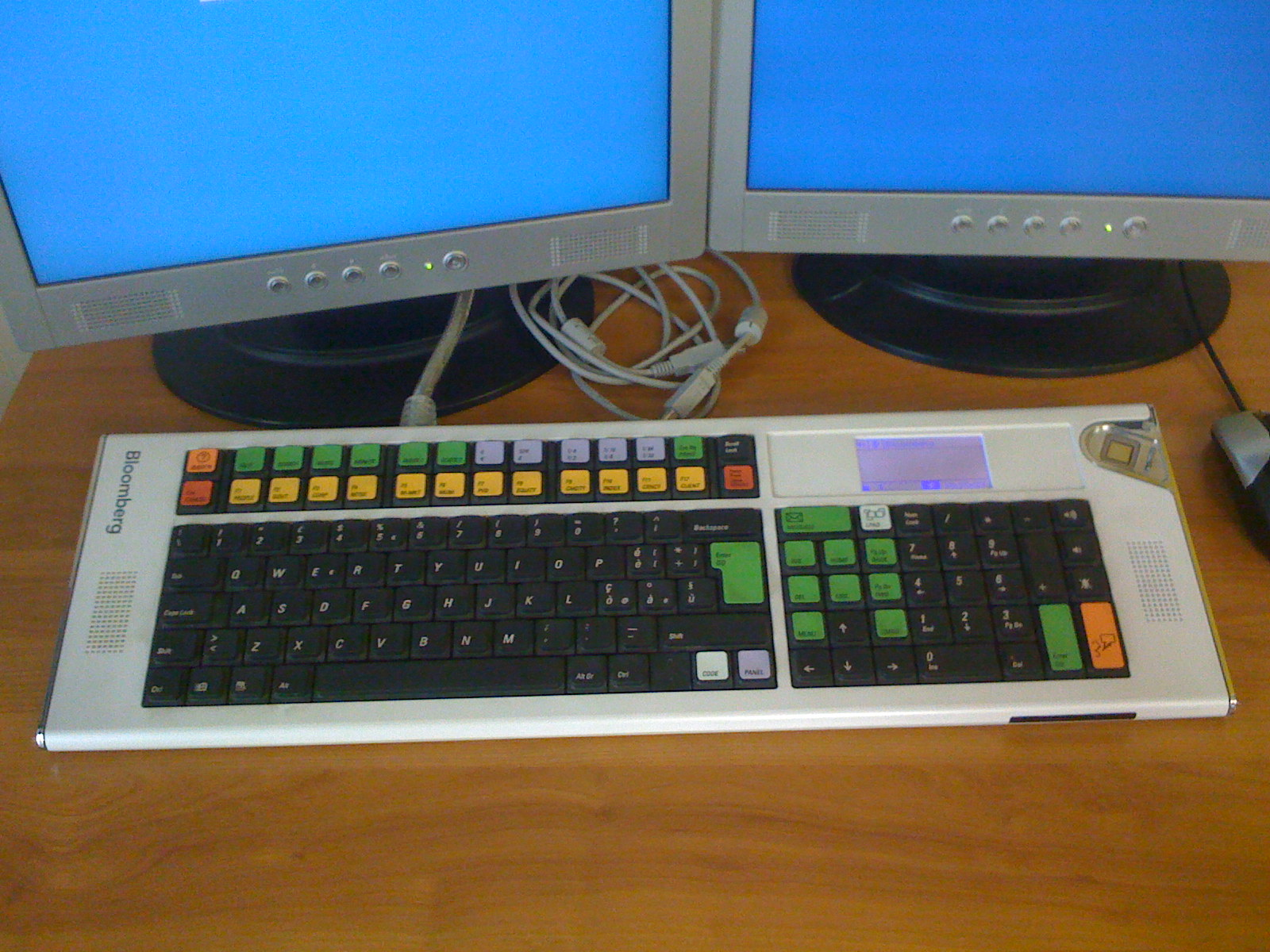 Bloomberg terminal keyboard, as seen by me inside the IT department of a large Italian life insurance business.